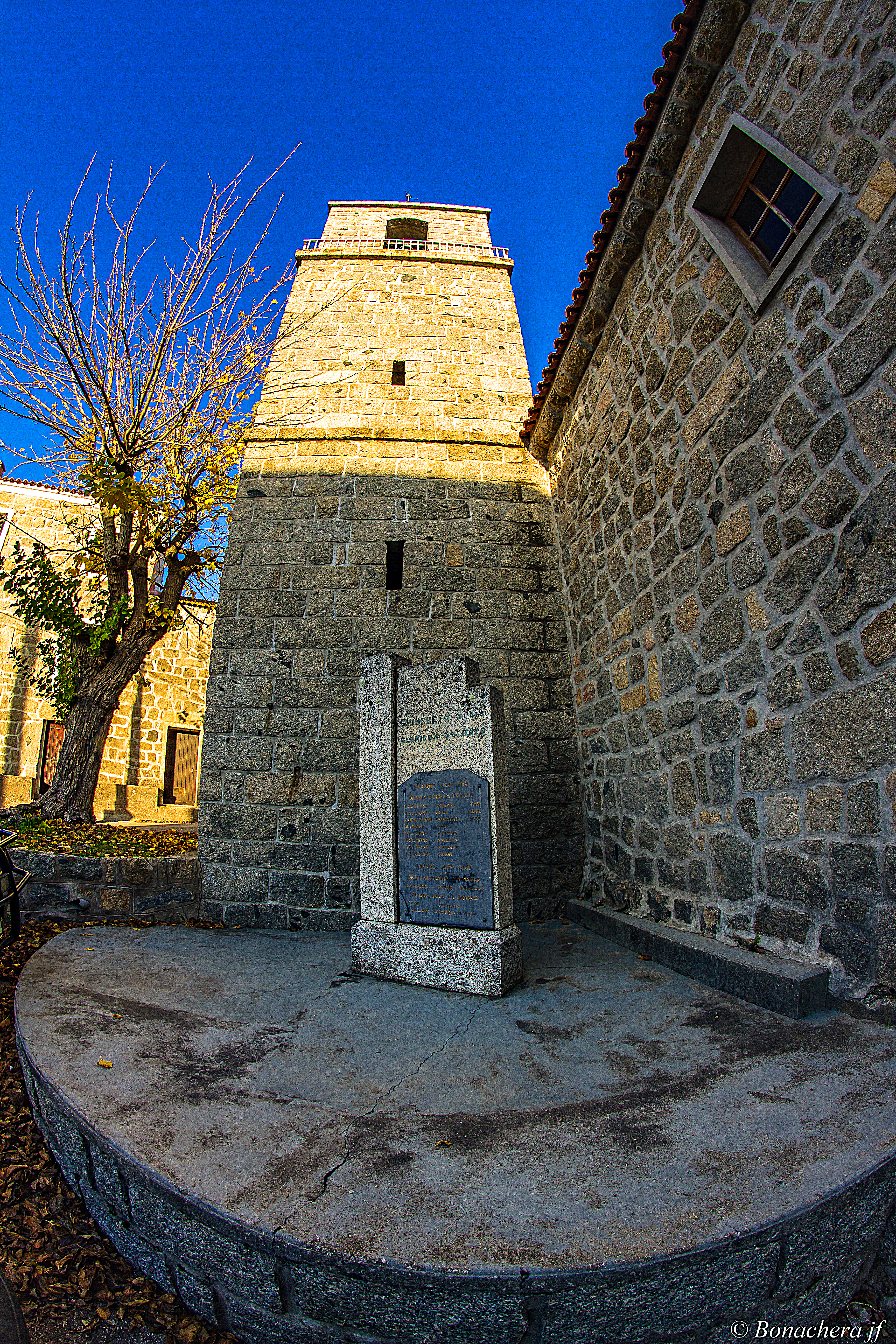 Le clocher et le monument aux morts de l'église Saint-Pierre et Saint-Paul